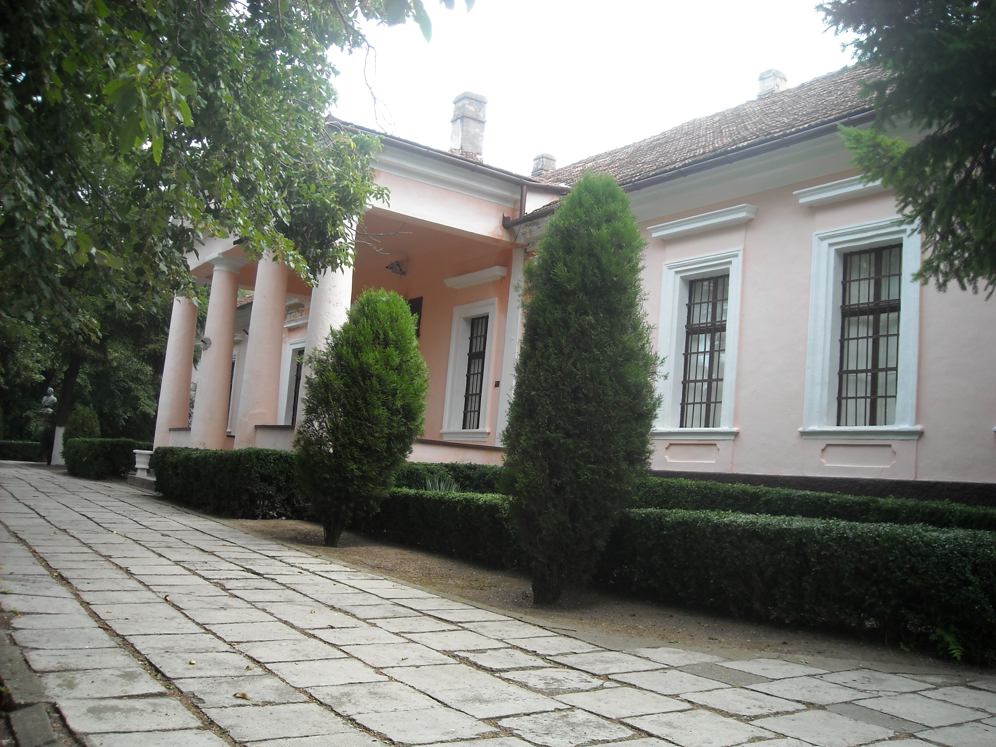 the former country mansion of the Bohus family, now museum and community center in Şiria/Világos/Hellburg, Romania (this is the place where the peace treaty was signed in 1849 between the Hungarian rebels and the Russian interventionary army)